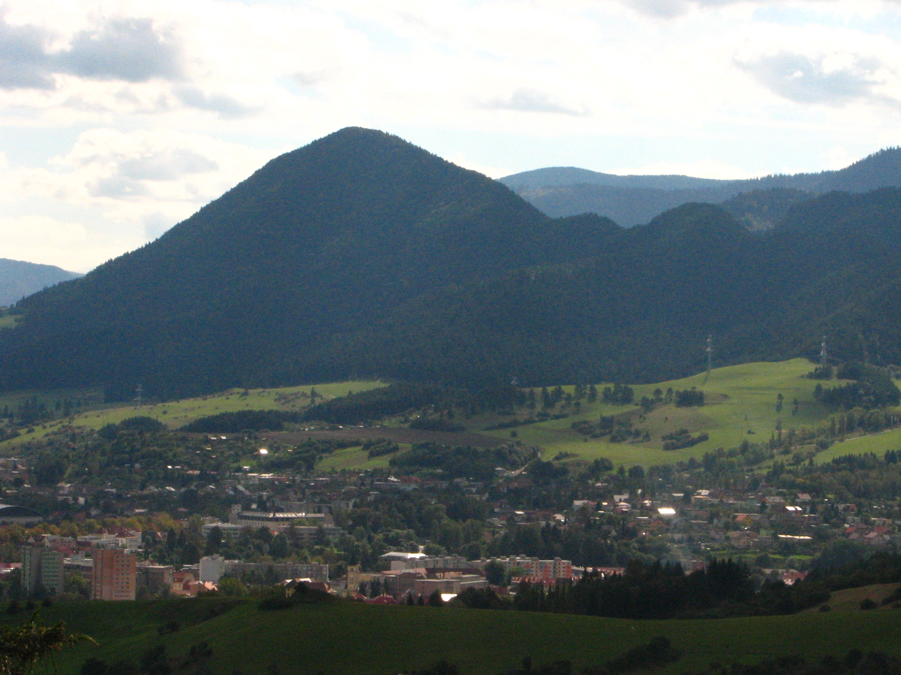 View from Likava castle to Sidorovo and Ružomberok.